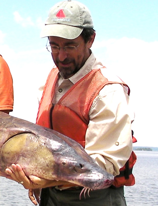 Andrew Revkin, reporting for his New York Times blog, Dot Earth, examines an Atlantic sturgeon tagged in the Hudson River.